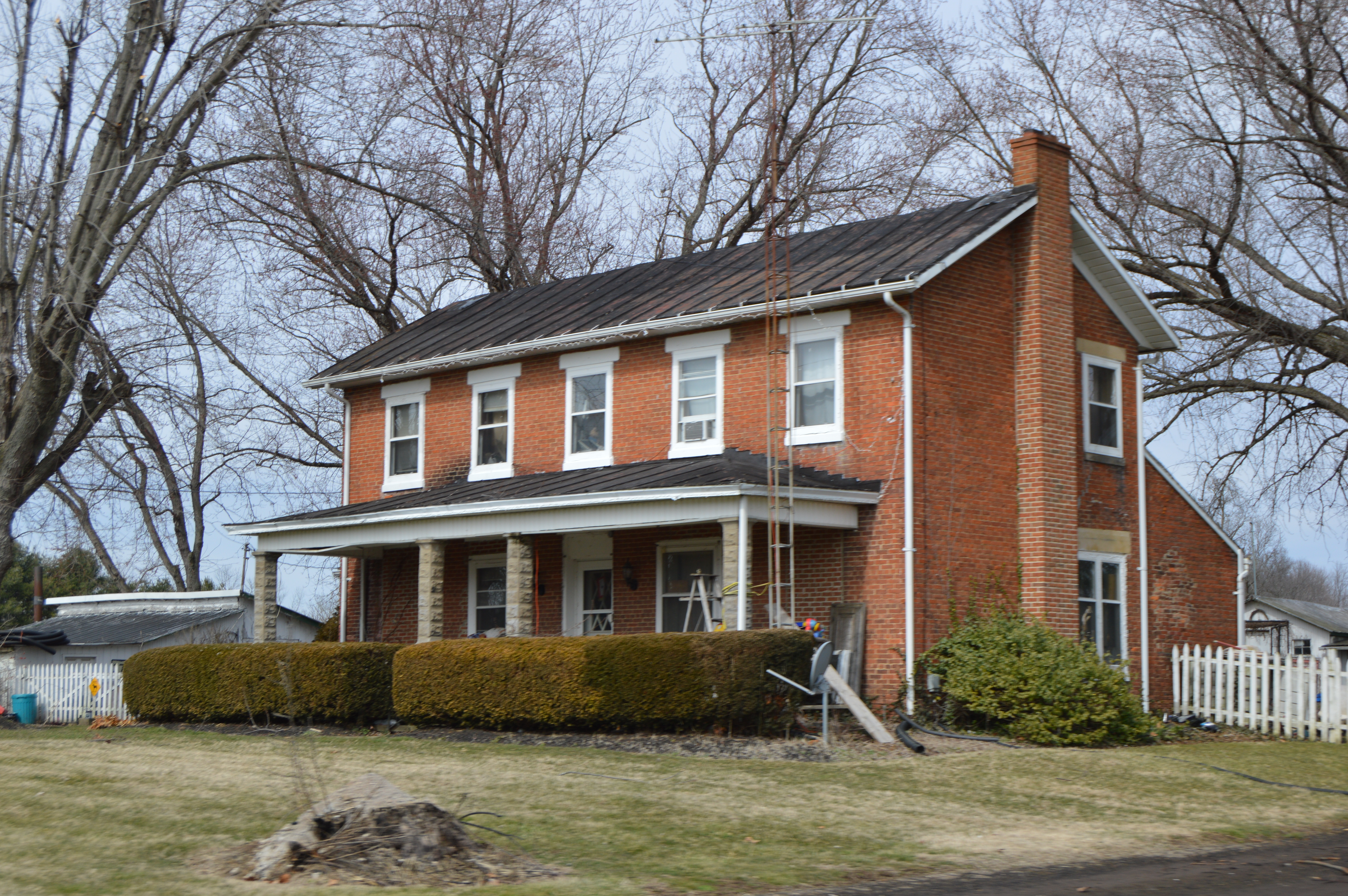 Front and eastern side of a farmhouse on Sycamore Road just west of Brandon in Miller Township, Knox County, Ohio, United States.